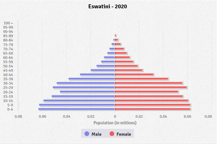 The population pyramid of Eswatini illustrates the age and sex structure of population and may provide insights about political and social stability, as well as economic development. The population is distributed along the horizontal axis, with males shown on the left and females on the right. The male and female populations are broken down into 5-year age groups represented as horizontal bars along the vertical axis, with the youngest age groups at the bottom and the oldest at the top. The shape of the population pyramid gradually evolves over time based on fertility, mortality, and international migration trends.